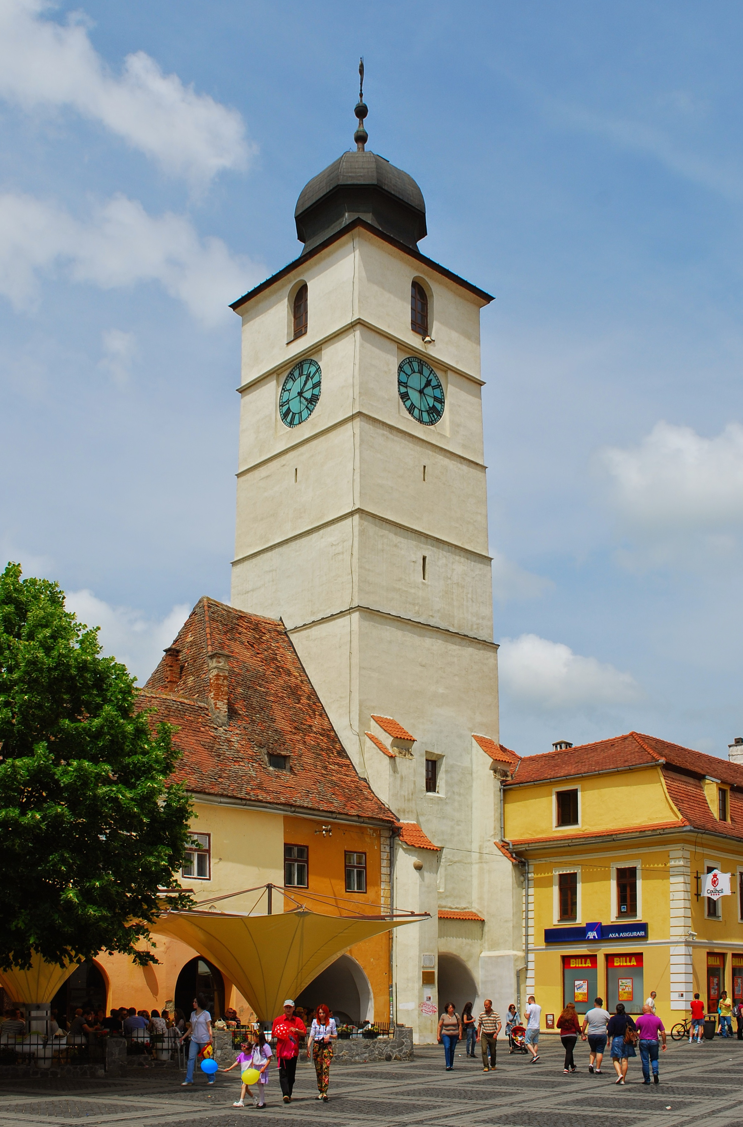 Council tower in Sibiu, RomaniaRomână: Turnul Sfatului din Sibiu, România 02